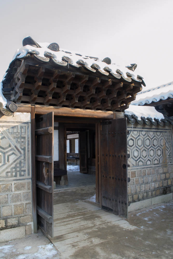 Gate of Nakseonjae